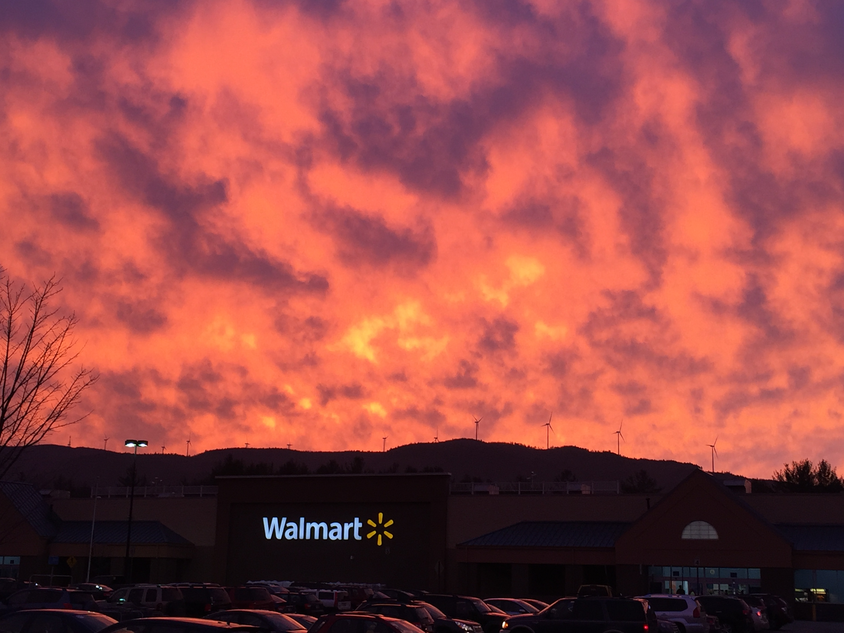 A stunning sunset over the Walmart Supercenter in Plymouth, NH. Windmills in Groton, NH are visible on the ridge in the background.